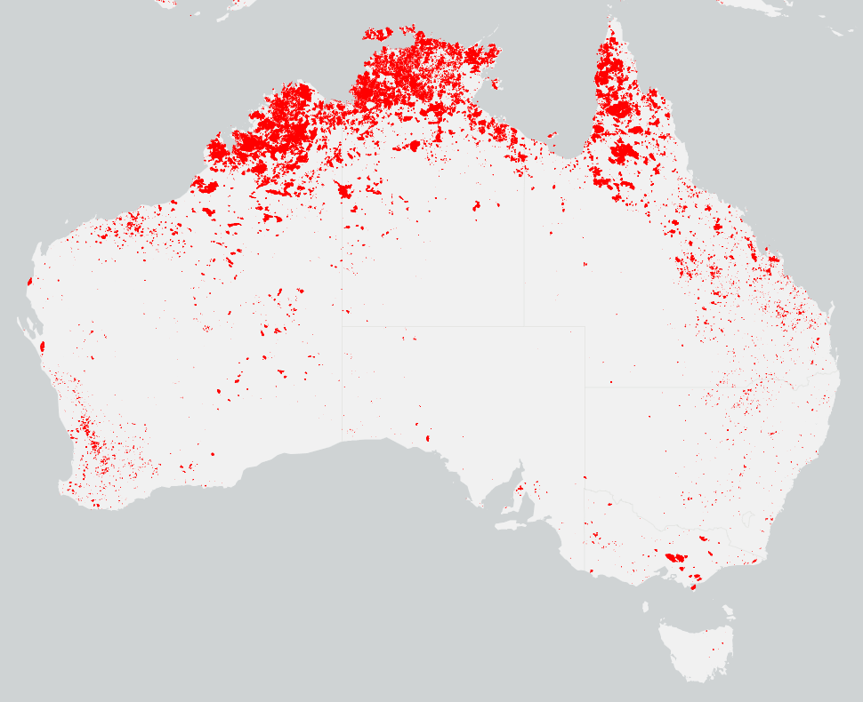 Burned areas shown in red detected by NASA's MODIS imaging sensors onboard Terra & Aqua satellites from June 2008 to May 2009.